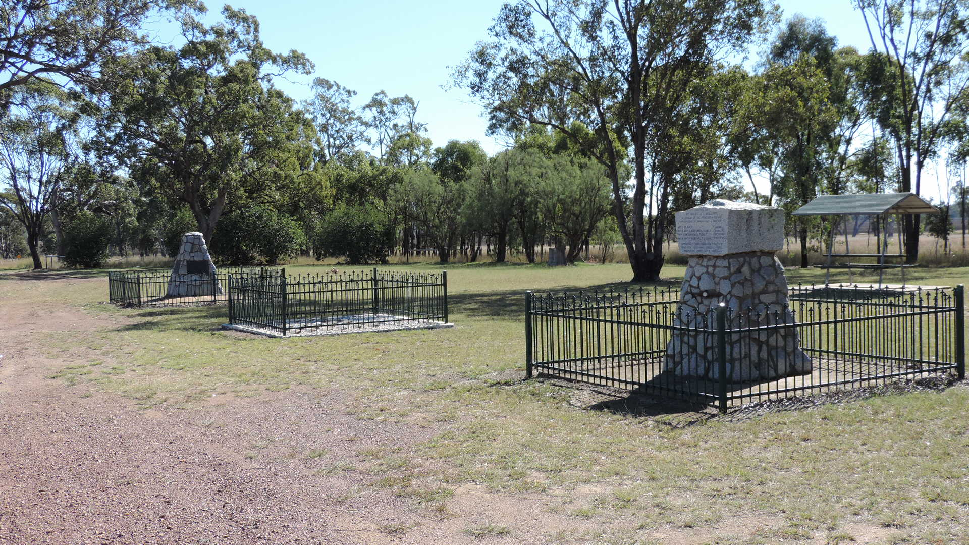 Memorial park, Cunningham, Queensland, 2015